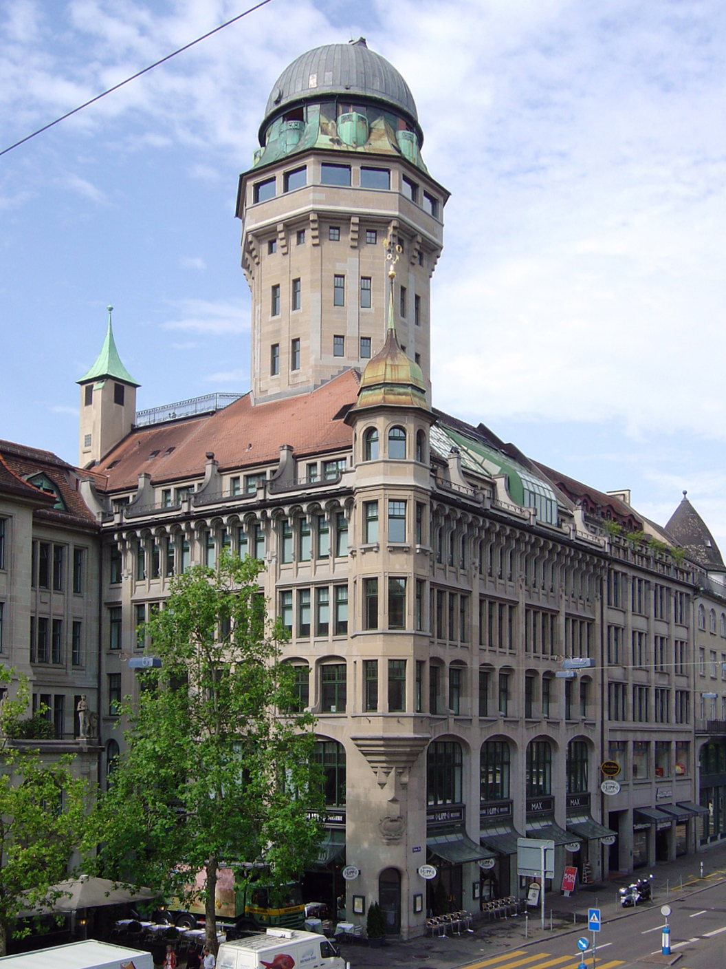 Urania Sternwarte in the center of Zurich, Switzerland.